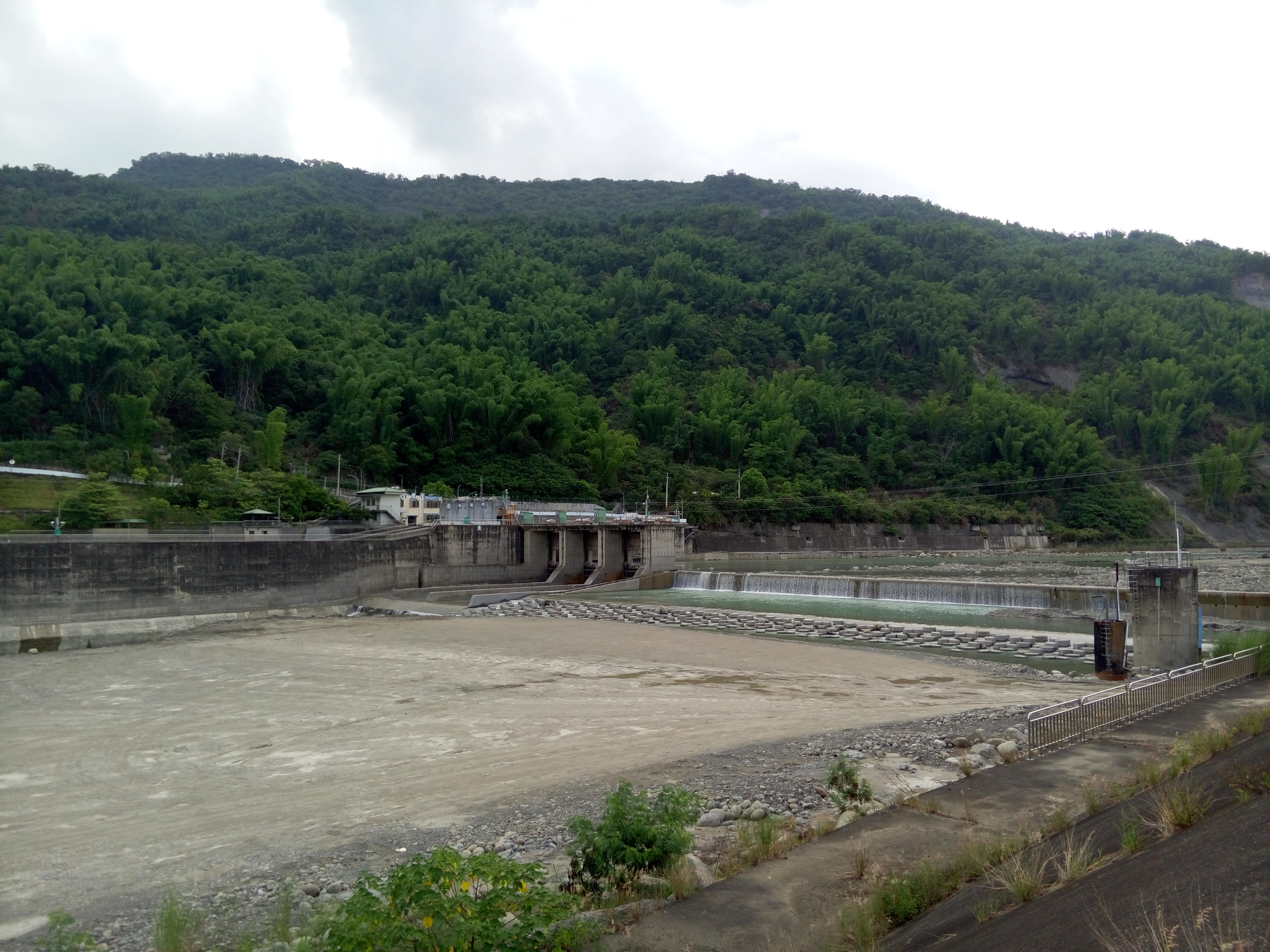 Taiwan(R.O.C)Kaoshiung City Jiaxian District Jiaxian Weir中文（中国大陆）: 台湾高雄市甲仙区甲仙拦河堰